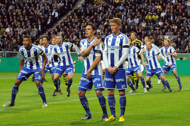 Players during the Fotbollsallsvenskan game AIK-IFK Göteborg (3-1) at the Friends Arena in Solna, Sweden on 6 May 2013.